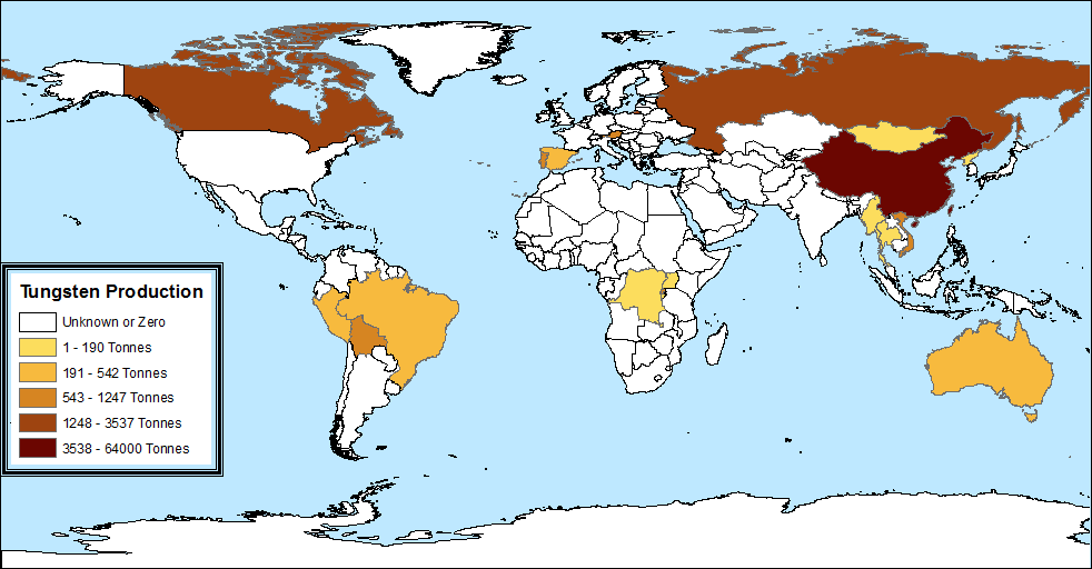 Worldwide amounts of Tungsten produced by country in 2012.